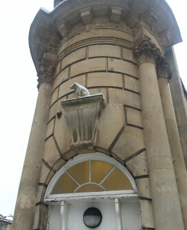 Photograph of the statue of Nipper the Dog, from the corner of Park Row and Woodland Row, Bristol, taken by Stefan Gilligan